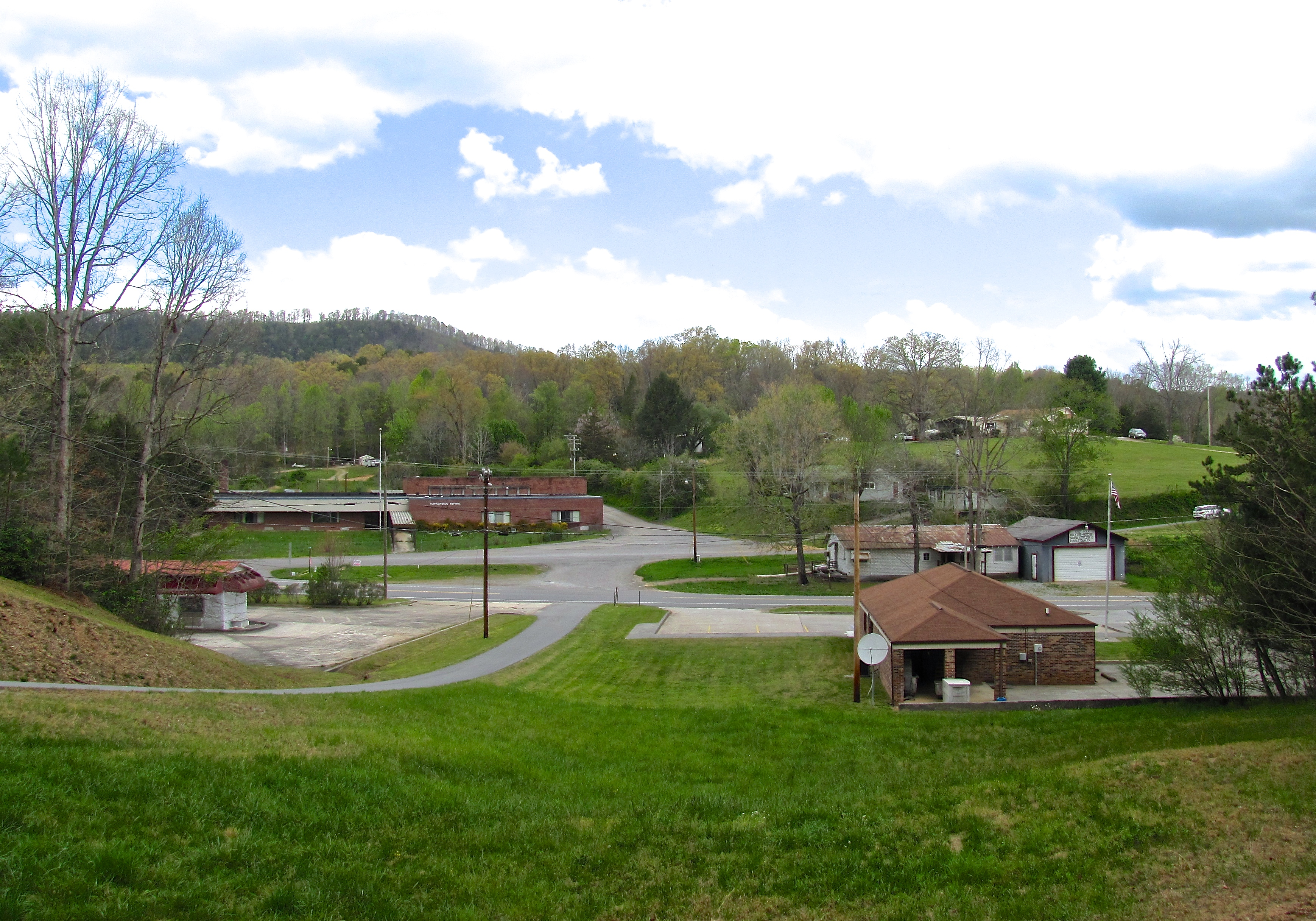 The community of Turtletown in Polk County, Tennessee, United States. The post office is on the lower right, and the former Turtletown School is left of center.